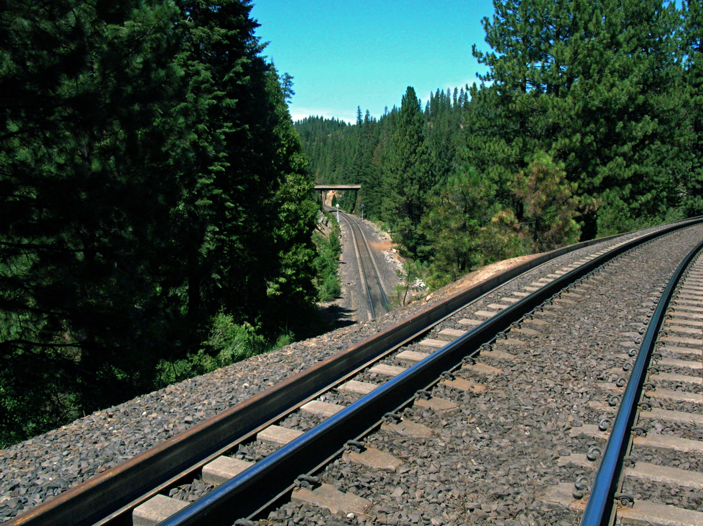 From the Williams Loop looking at the track headed downhill (west). Trains headed uphill from the west approach this location on the lower track, loop counterclockwise on the track seen above, crossing the track below. The train then finishes the loop, completing more than 360 degrees and heads east.